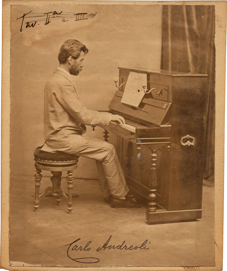 Portrait of Carlo Andreoli, composer (1840-1908). Photo by unknown, before 1908.